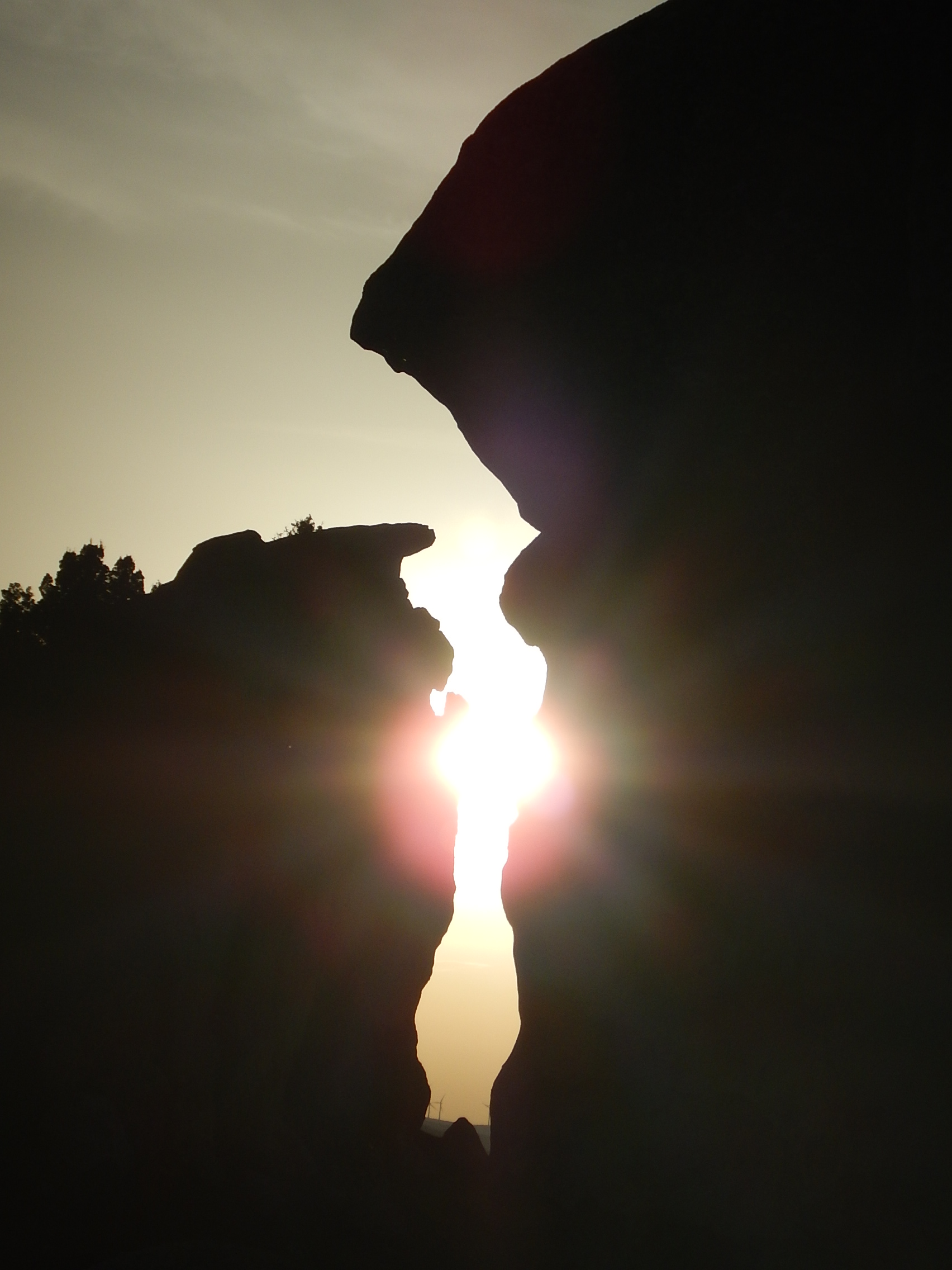 the sunset on equinox day falls just between the natural rock formations of the Praying Woman and the Divinity the Argimusco site of Montalbano Elicona in Sicily.